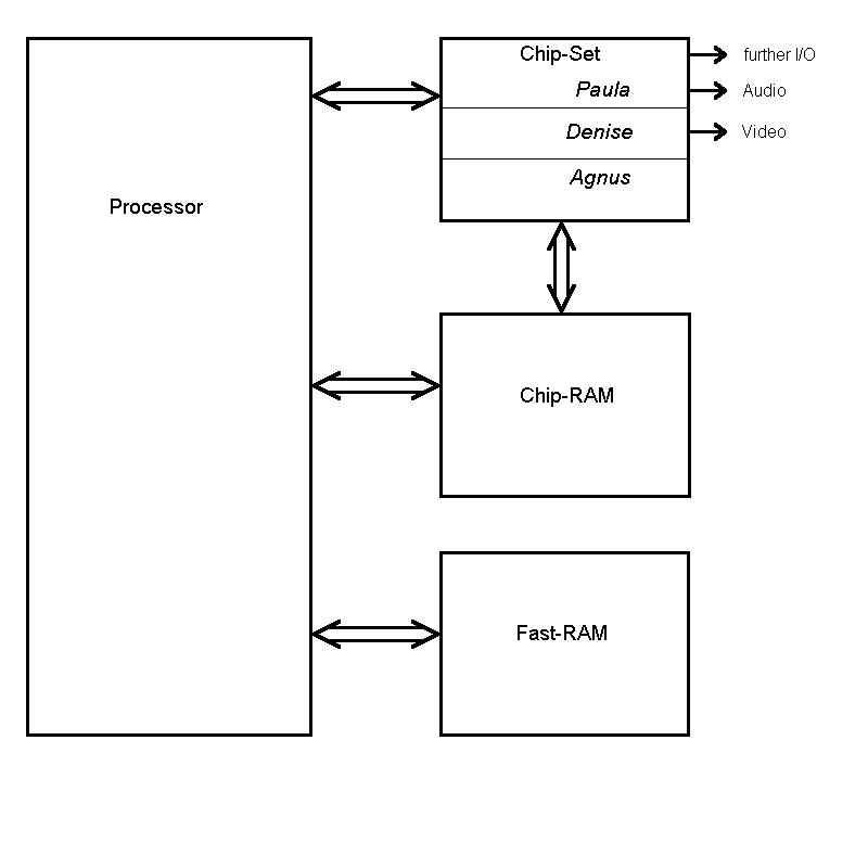 Structure of the Amiga hardware with its special Chip Set